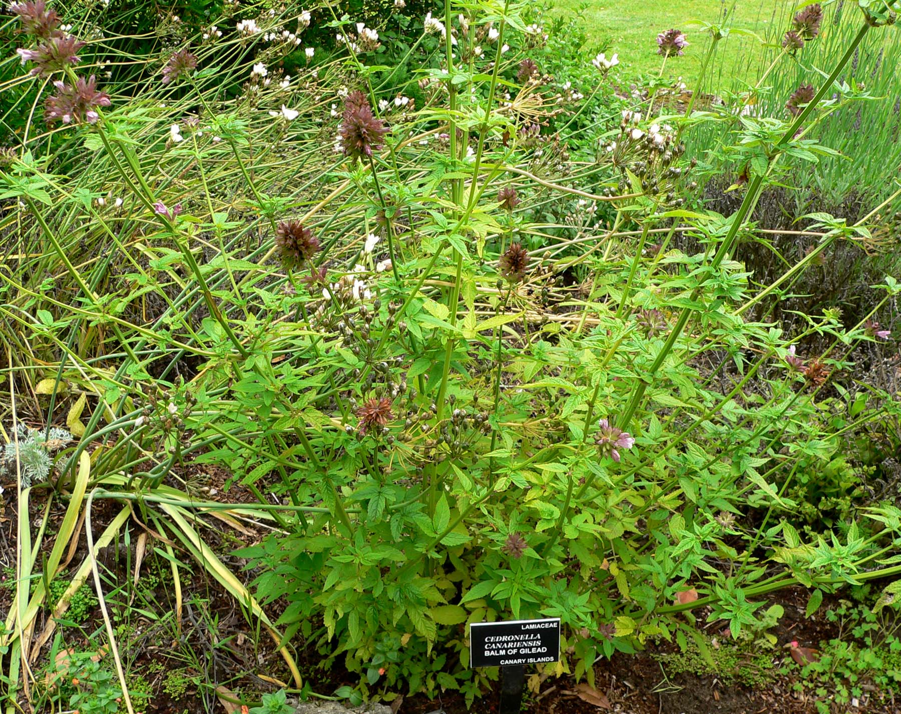 Photo of Cedronella canariensis at the San Francisco Botanical Garden